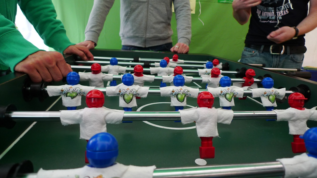 Table football